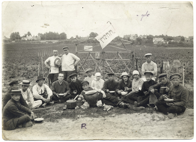 Hechalutz agricultural group. Members of a Hechalutz agricultural group, sharing a meal in a field, Grodno, 1920. A portrait of Theodore Herzl rests on a hoe leaning on a gate.